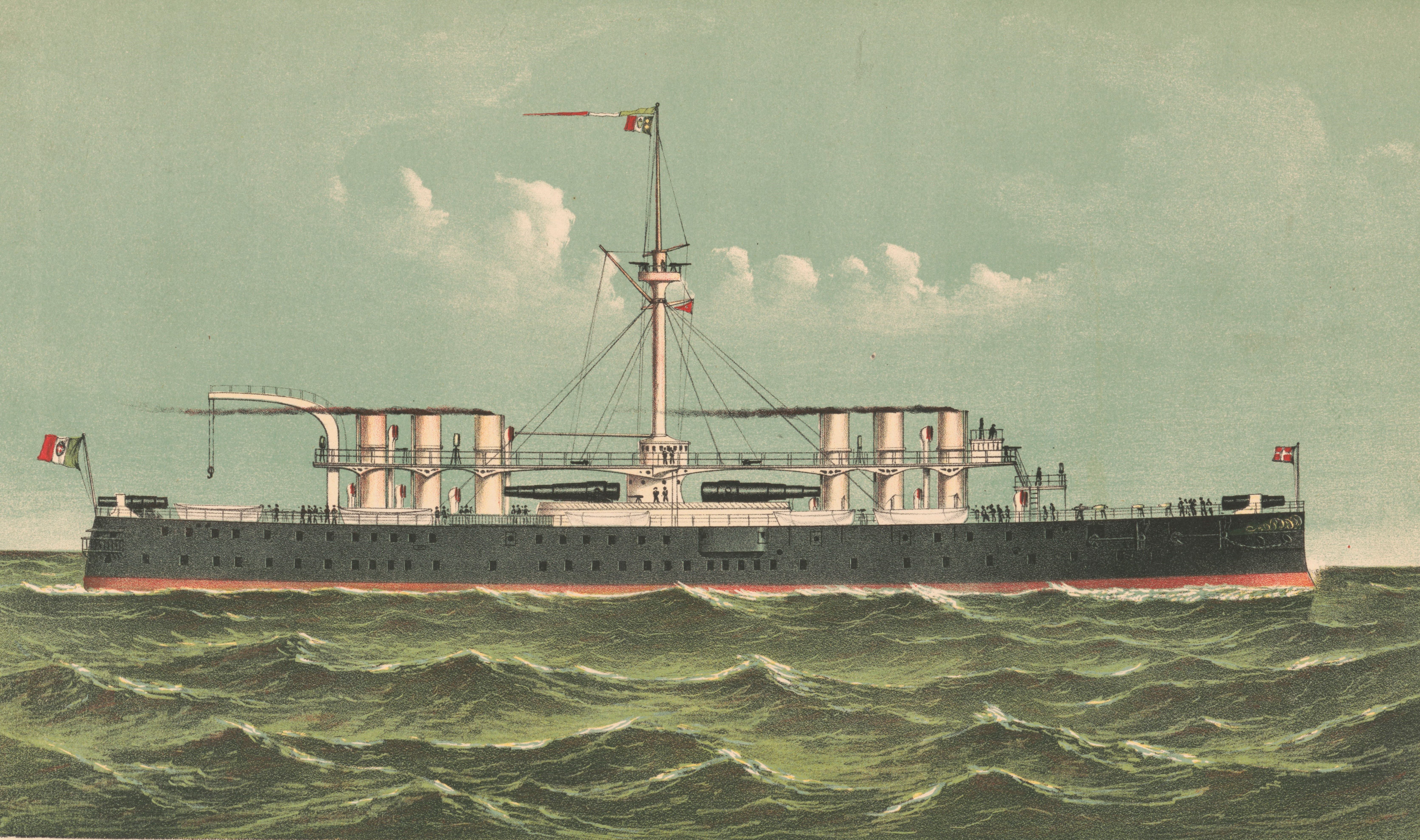 Title: "Italia," first class ironclad of the Italian Navy Physical description: 1 print. Notes: This record contains unverified data from PGA shelflist card.; Associated name on shelflist card: Montesi, E.